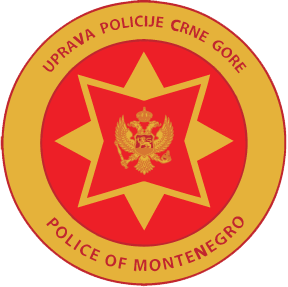 Logo of the Police Authority of Montenegro